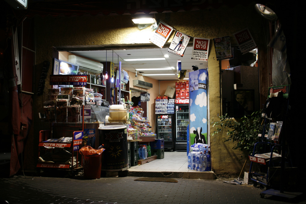 pitzutzia (around the clock kiosk) in Tel-Aviv